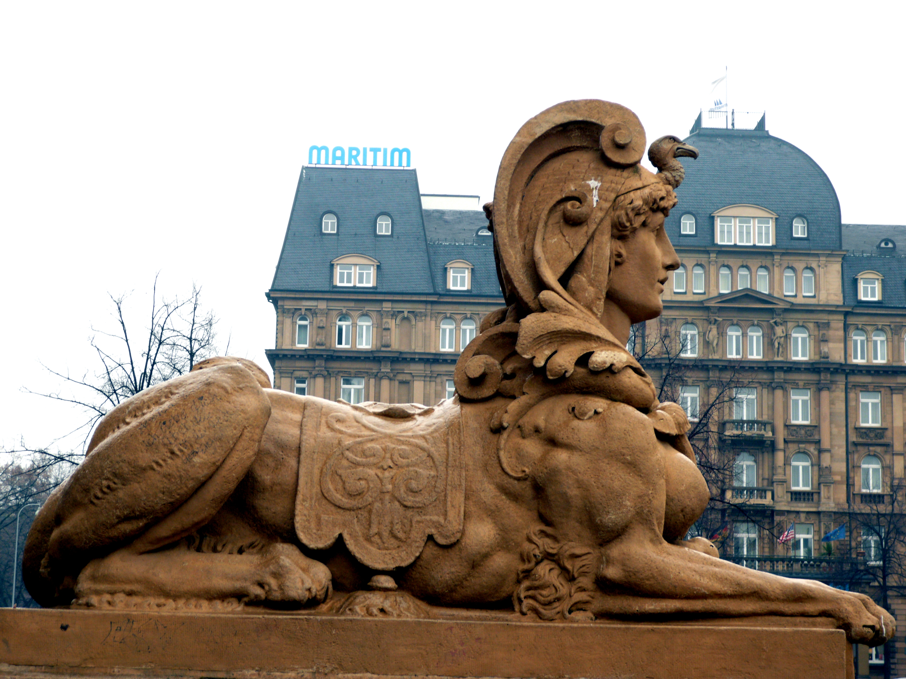 Sphinx by Ernst Westphal at the water tower in Mannheim, Germany